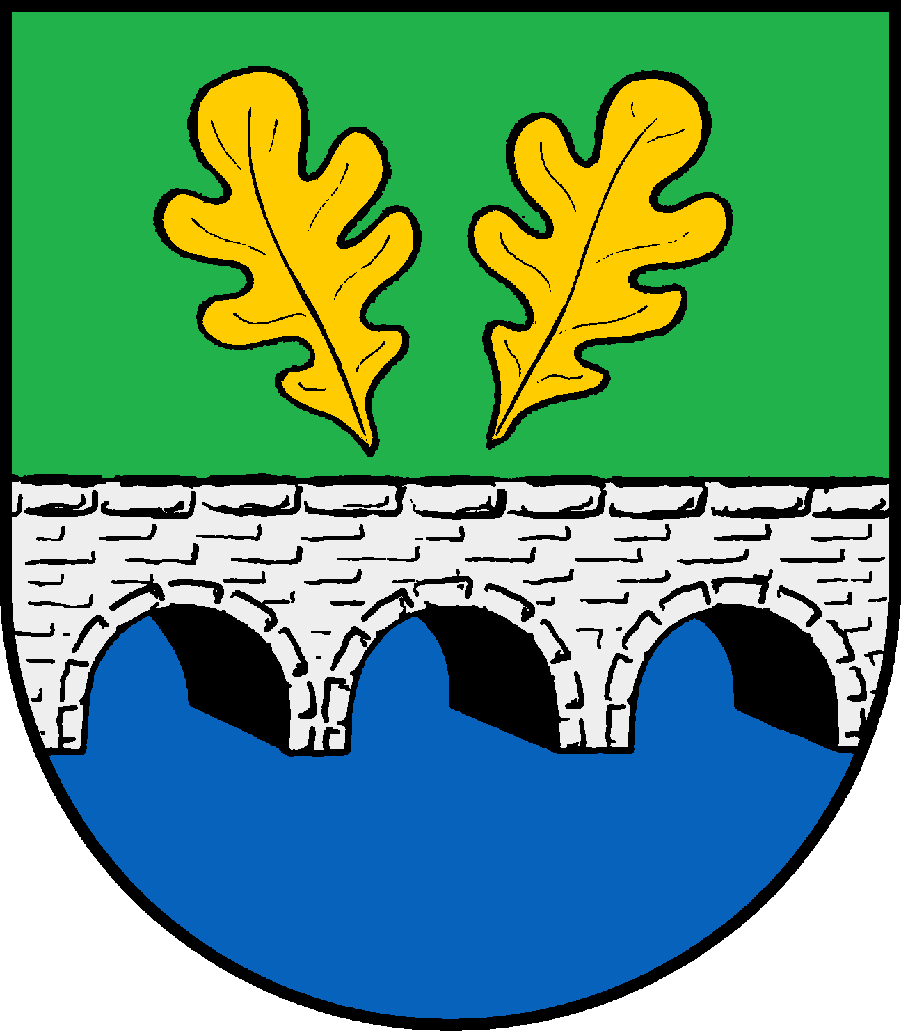 Coat of arms of the municipality Schmalfeld in Schleswig-Holstein, Germany.